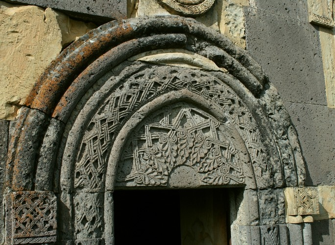 The Tiri Monastery is a 13th-centuryl Georgian church located in the historical province of Shida Kartli, now included in South Ossetia.